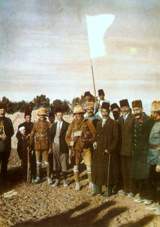 Surrendor of Jerusalem - the Ottoman mayor of Jerusalem accompanied by notables surrendors in front of two British kitchen sargeants. Description of the picture from the memoirs of Wassif Jawarieh: . "It shows Hussein Bey, the mayor of Jerusalem; Tawfiq Muhammad Saleh al-Husseini; Ahmad Sharaf, police commissioner of Beyada; Haj ‘Abdul Qader al-‘Alami, police commissioner of Sawari; Shams al-Dein, policeman; Amin Tahboub, policeman; Jawad Bey ben Ismail Bey al-Husseini, wearing shorts; and Burhan, son of the late Taher Bey al-Husseini. Carrying the white surrender flag behind Hussein Bey was the driver of Jamal Pasha, named Salim. From Lebanon, he was married to the sister of Iskandar and Hanna al-Lahham. Next to him was Hanna al-Lahham.", The boy in the pictue is Menashe Elishar, and the two british soldiers are sergeants F. G. Hurcomb and J. Sedgewick from the 2nd battalion.